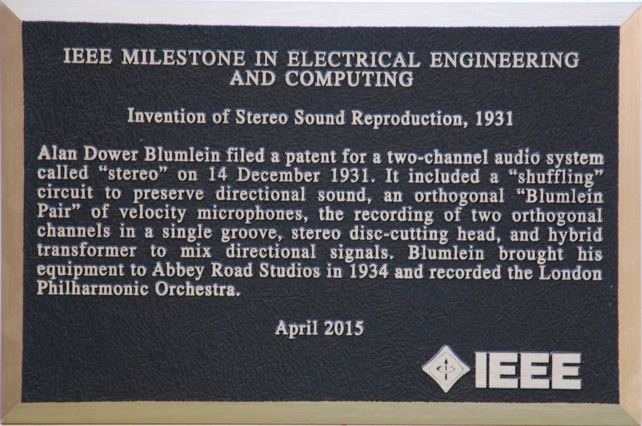 IEEE Milestone plaque awarded posthumously to Alan Dower Blumlein in 2015 for the invention of Stereo. This plaque is mounted by the front door of Abbey Road Studios